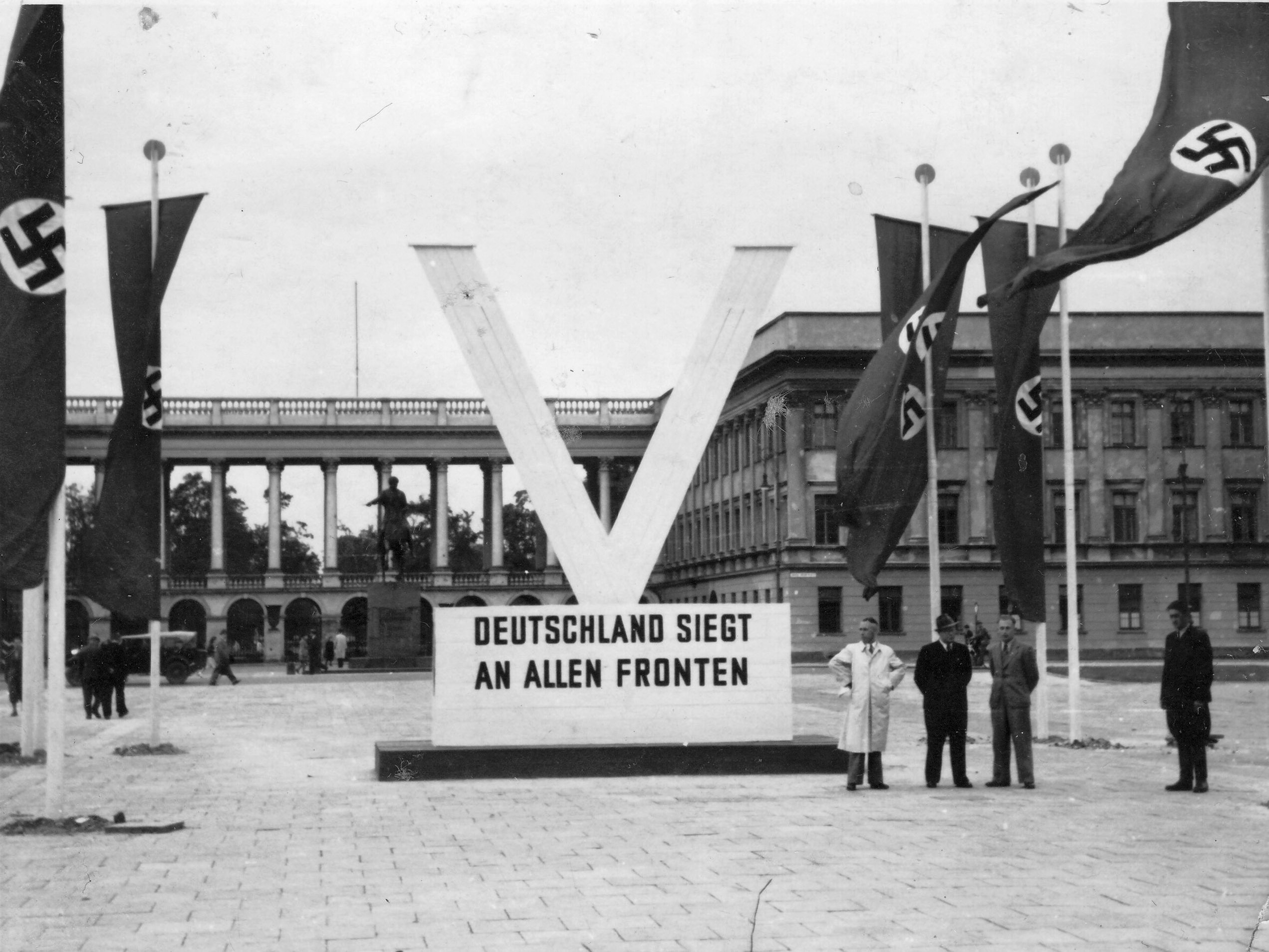 „Deutschland siegt an allen Fronten” („Germany wins on all fronts”) and "V" sign standing in front of gubernatorial residence of Hans Hans Fischer in Saxon Palace on Piłsudski Square.